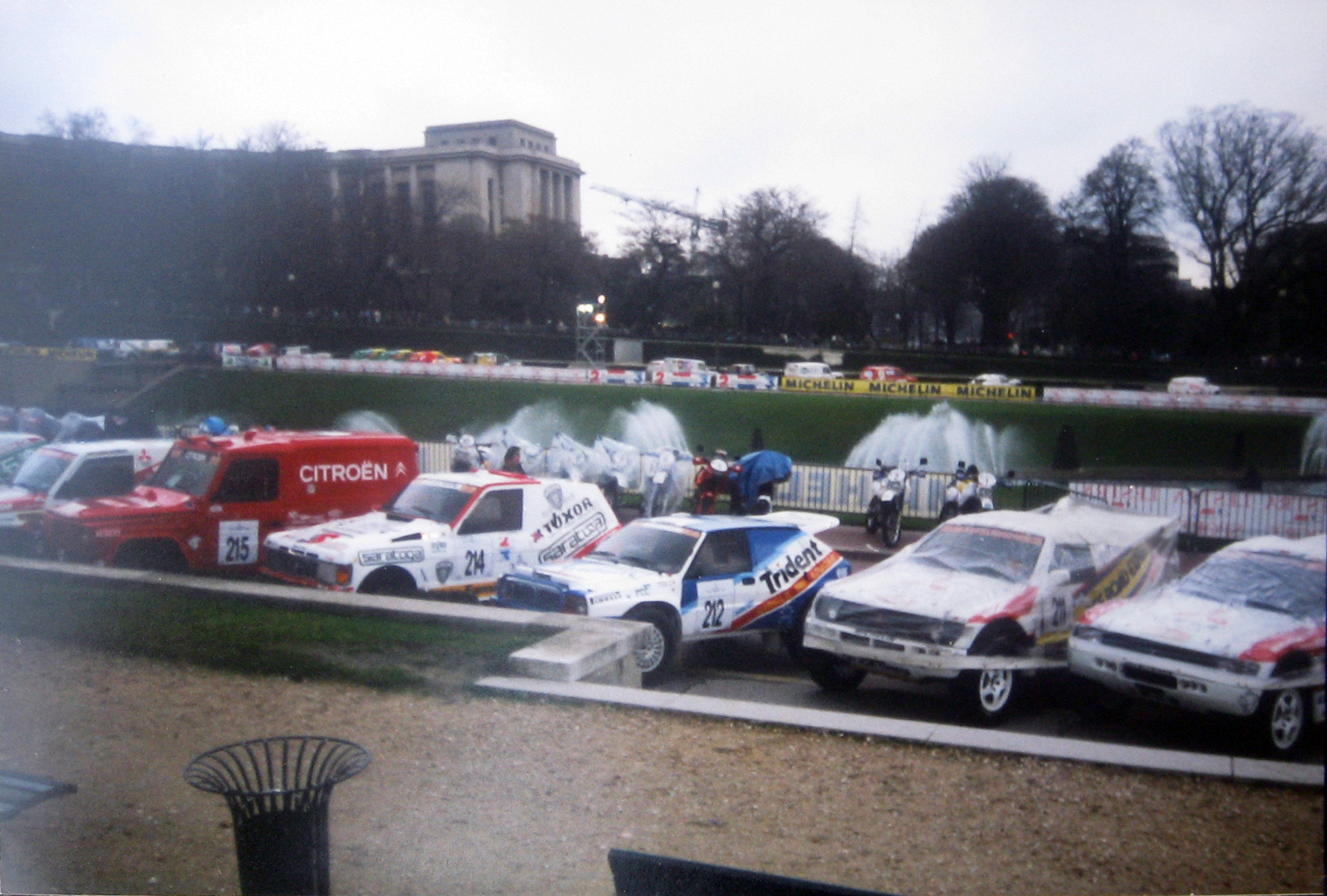 Cars of the rally on display in Paris